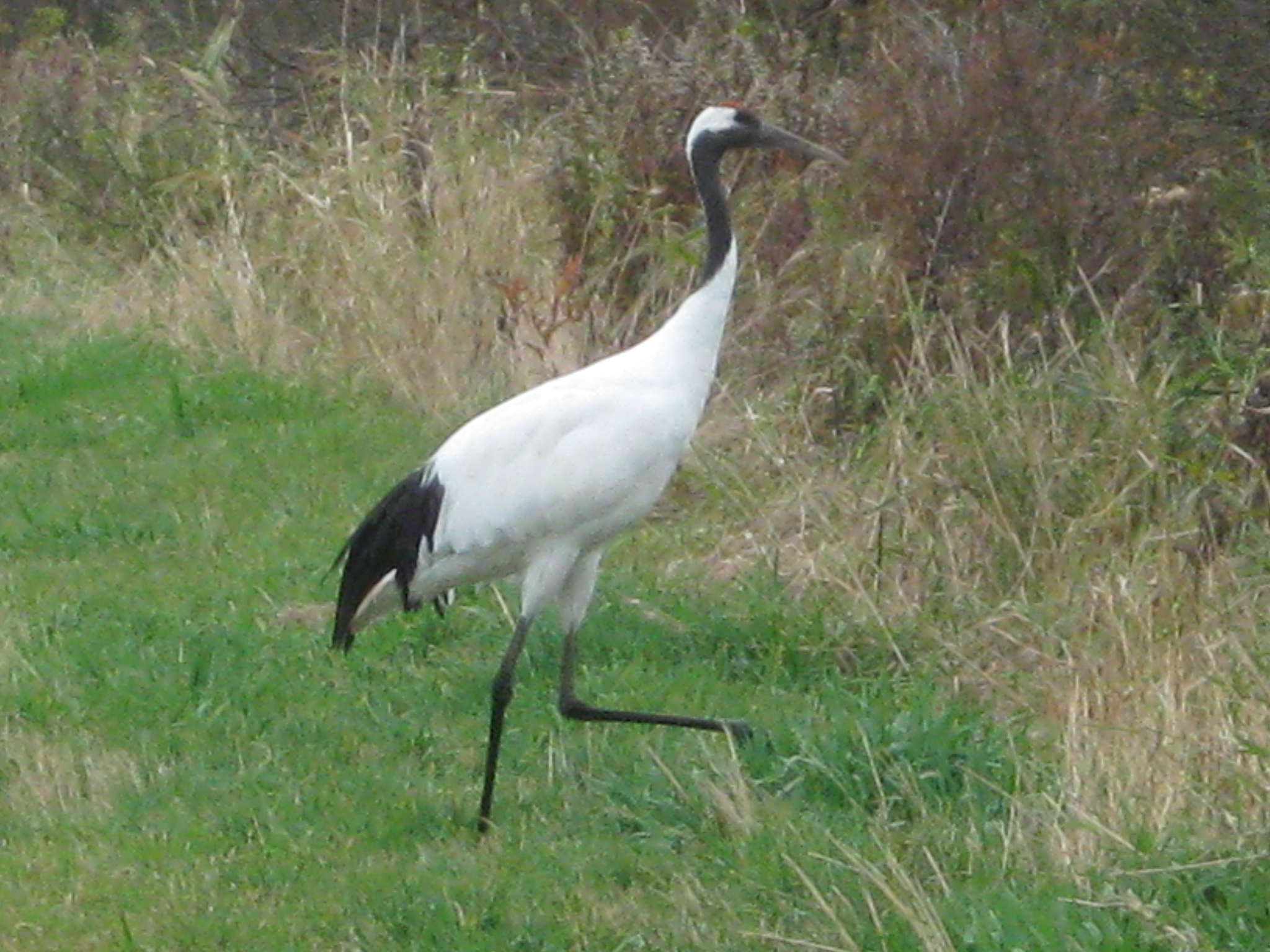 Grus japonensis, Kushiro National Park, Hokkaido, Japan.